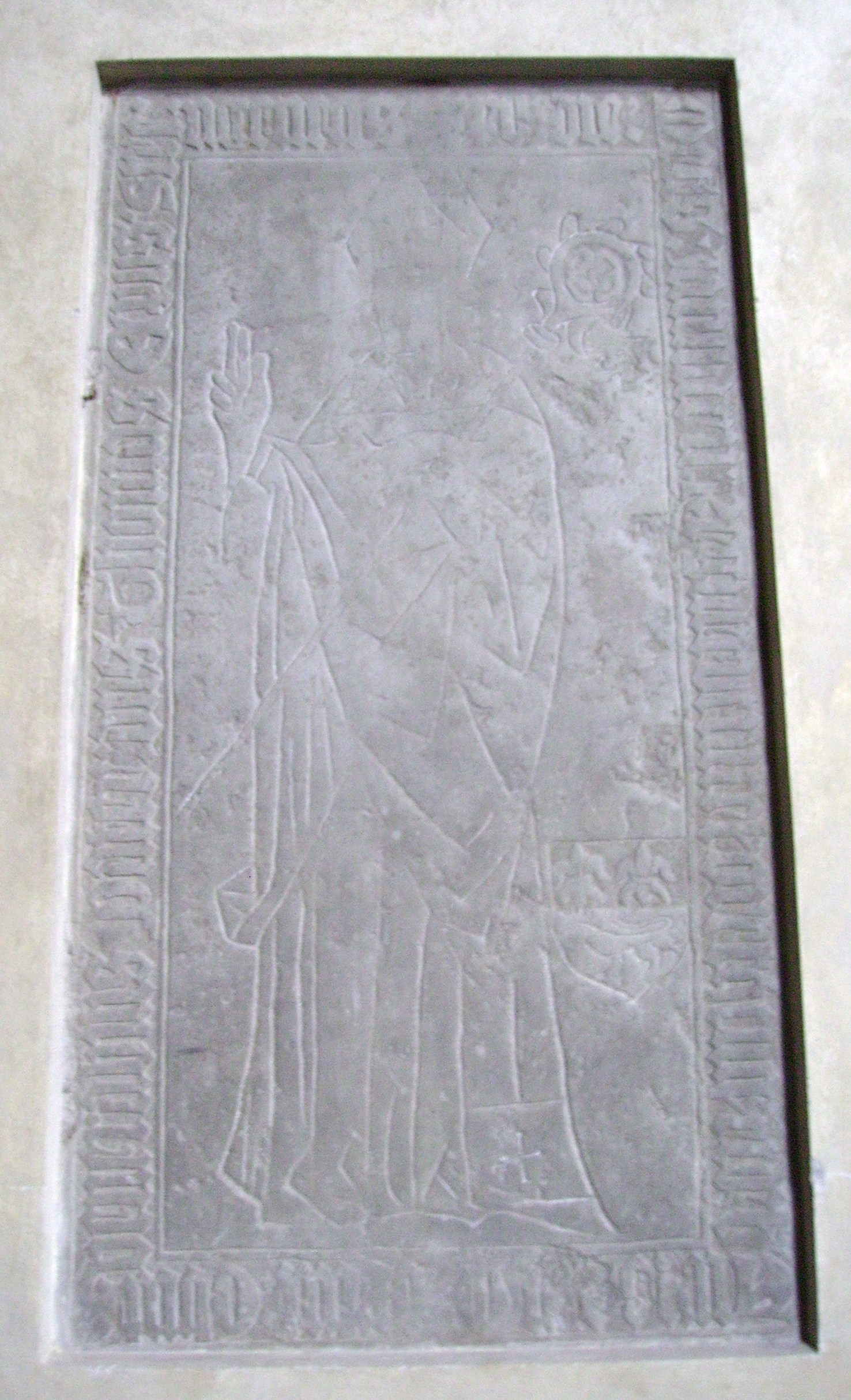 Picture of the memorial gravestone for bishop Thomas Simonsson at Strängnäs Cathedral in Sweden.